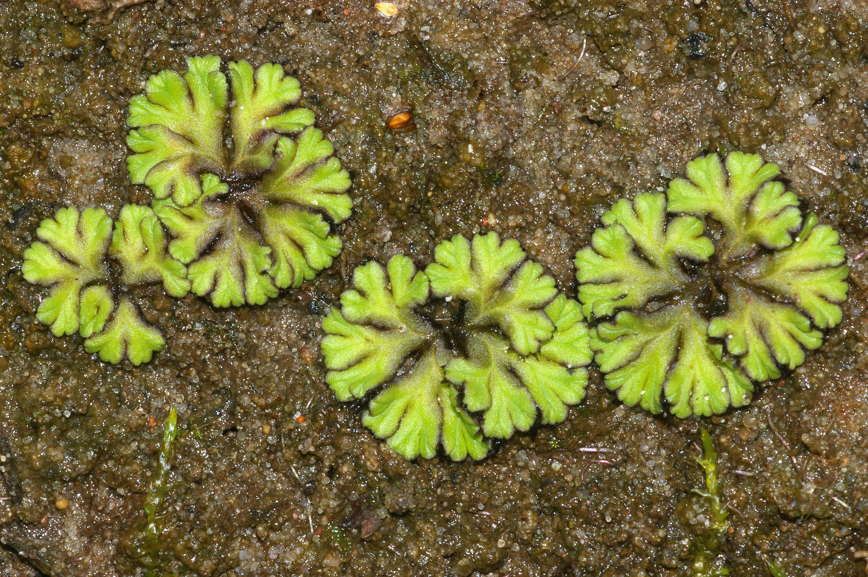 The floating liverwort species Ricciocarpos natans, a terrestrial form/stage.